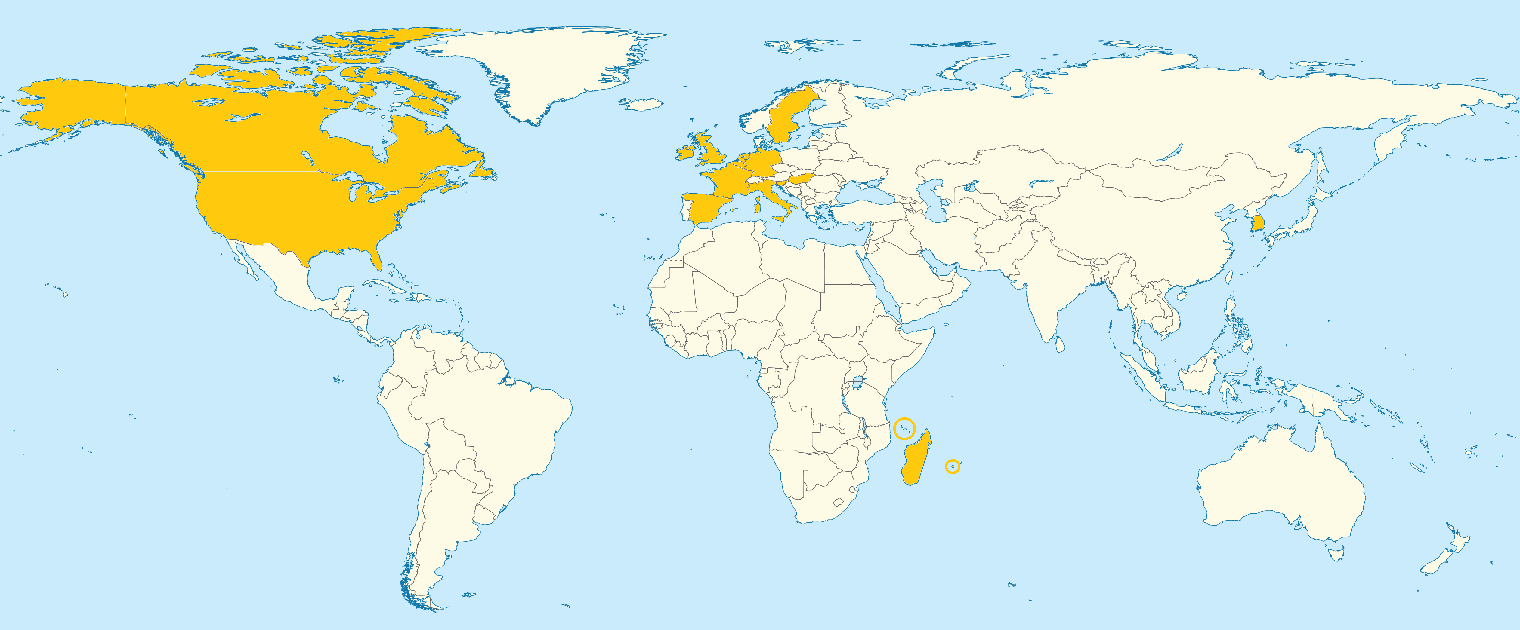 Countries in which canne de combat is practiced